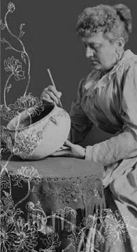 better known as Susan Stuart (Goodrich) Frackelton, American painter and ceramics artist